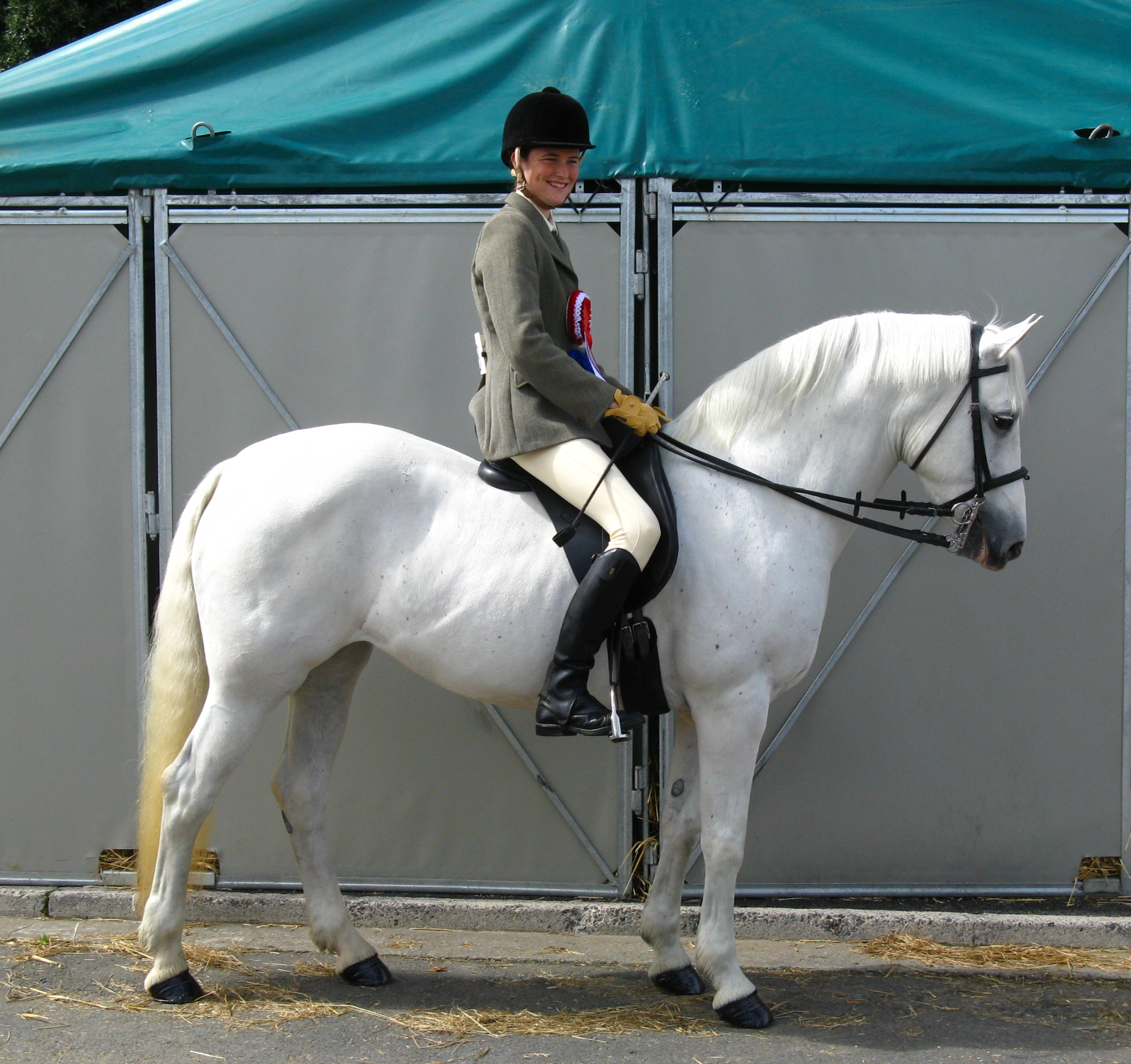 Tulira Katie Daly, Grey mare, b.1994, owner Lady Hempill, Co. Galway, Ireland